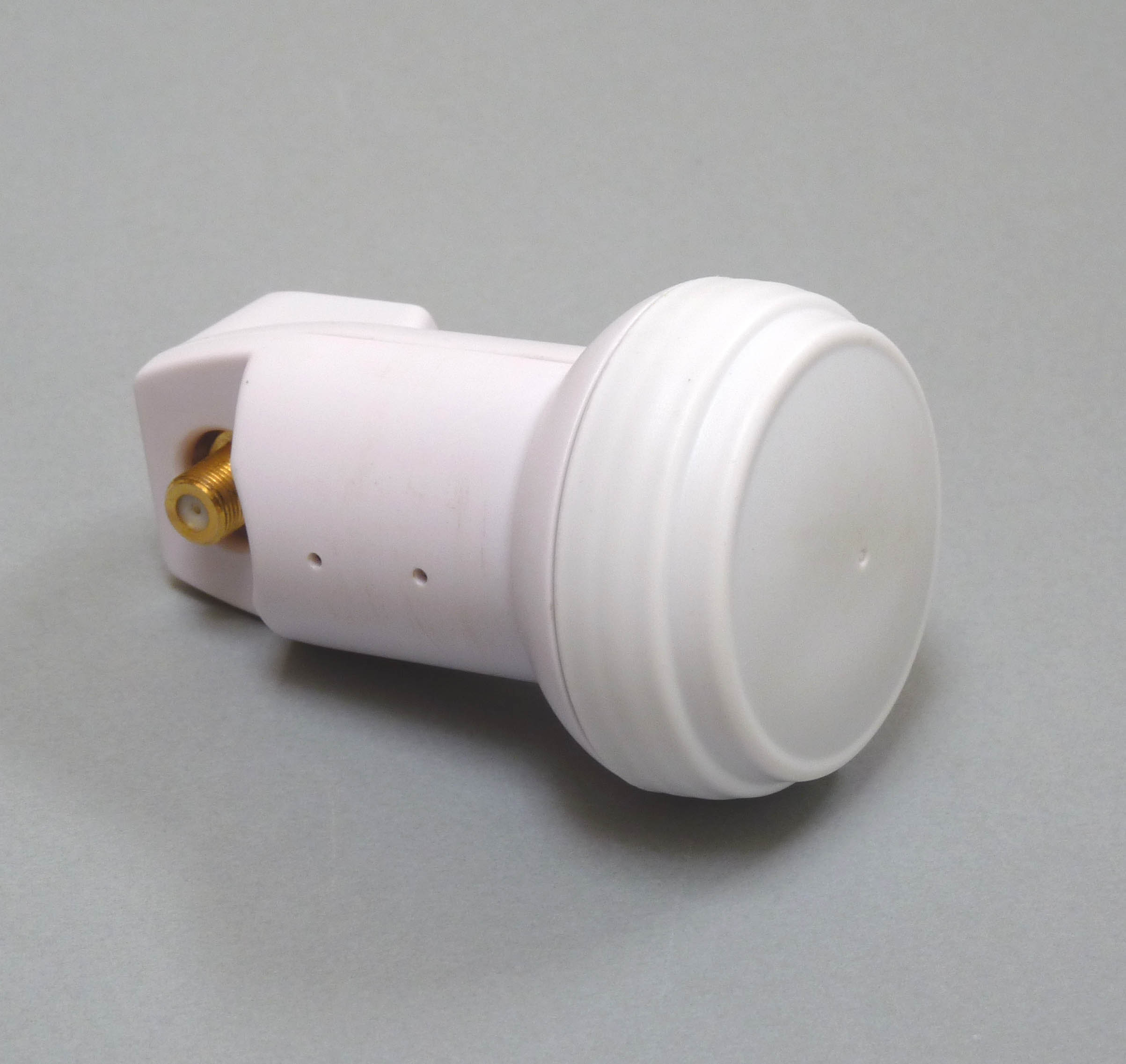 LNB for the Astra satellite TV system